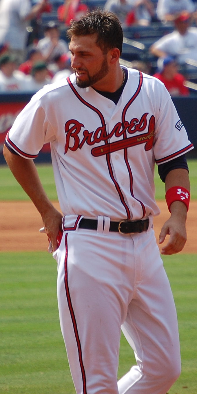 Jeff Francoeur, while still playing in Atlanta.